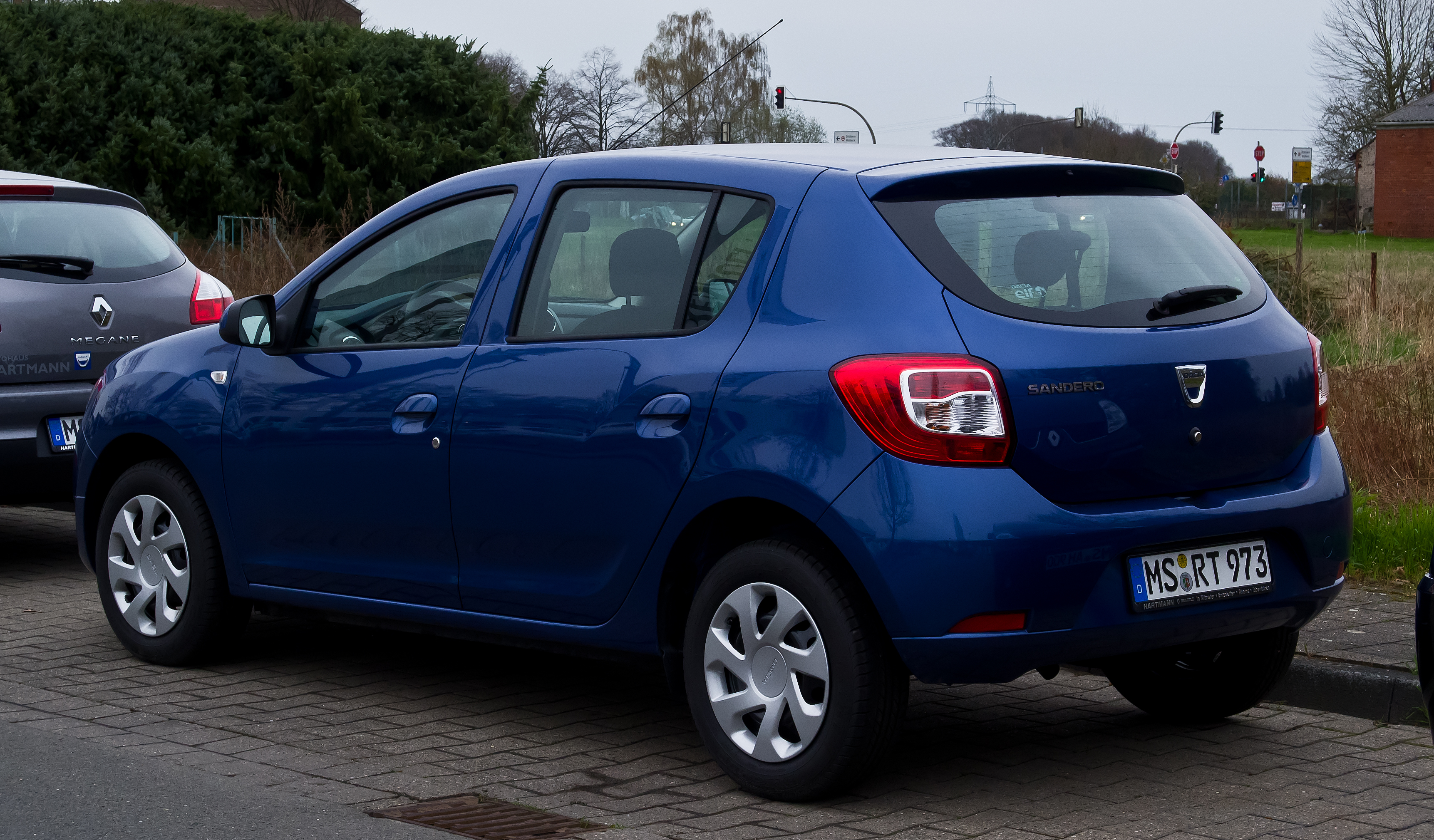 Dacia Sandero TCe 90 eco² Lauréate (II) moteur - engine type - Motor Typ: Renault Energy cylindrée - displacement - Hubraum: L3 898 cc 12V, turbo + VVT puissance - max. power output - Leistung: 66 kW @ 5 250 rpm couple maxi - torque - Drehmoment: 135 Nm @ 2 500 rpm transmission - gearbox - Getriebe: man. 5 Lxl: 4.06x1.73 m pneus - tires - Reifen: 185/65 R15 réservoir - fuel tank - Benzintank: 50 l vol. coffre - trunk - Kofferraum: 320 l poids - tare - Gewicht: 1 035 kg V max. - top speed - Höchstgeschwind.: 175 km/h